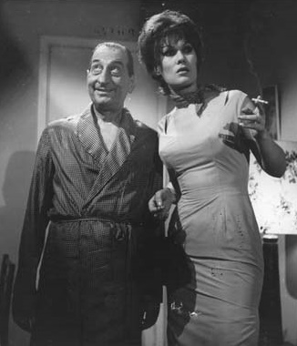 Norma Pons y Fidel Pintos en el film El Bulín